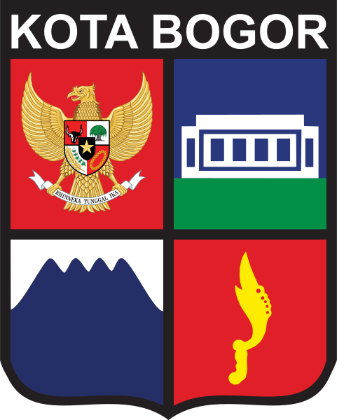 Coat of Arms of Indonesian city of Bogor.